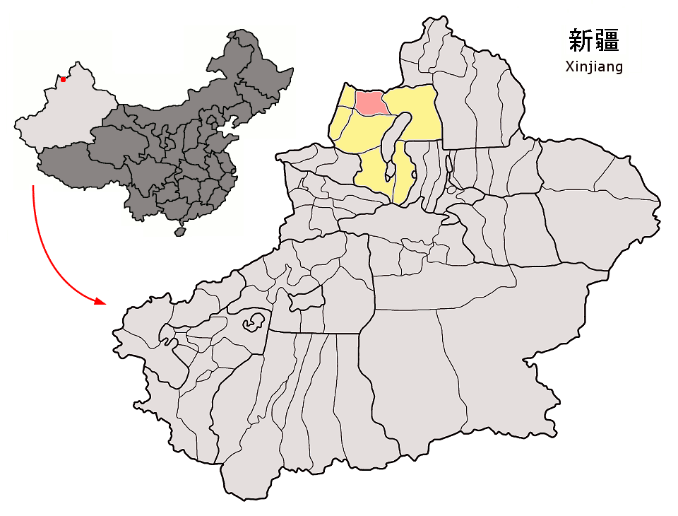 Location of Emin County (pink) and Tacheng Prefecture (yellow) within Xinjiang autonomous region of China Map drawn in september 2007 using various sources, mainly : Xinjiang Uygur autonomous region administrative regions GIS data: 1:1M, County level, 1990 Xinjiang Counties map from